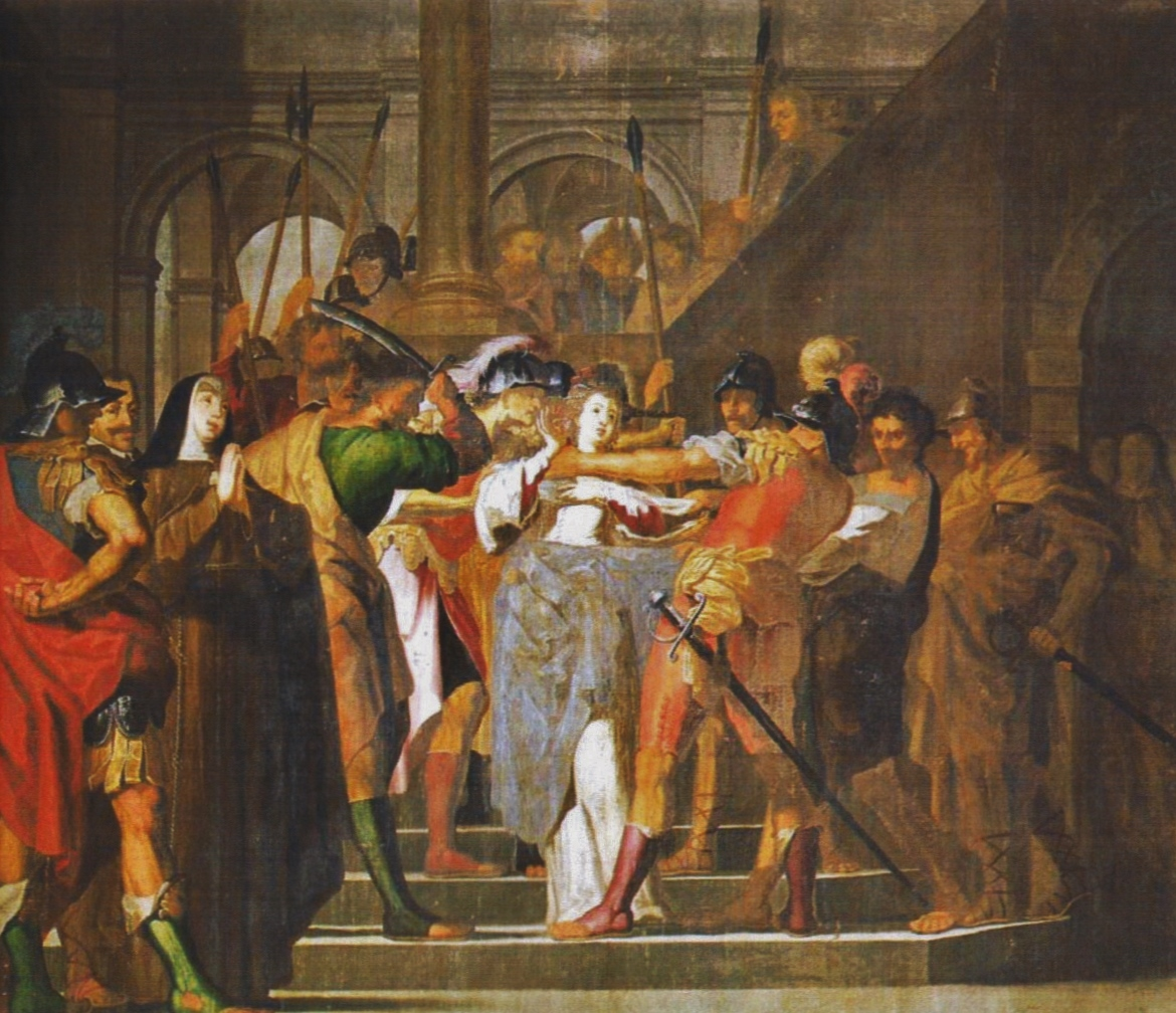 Arrival of Saint Agnes of Assisi at the Convent (c. 1697), by António de Oliveira Bernardes. Painting in the Church of Saint Clare, in Évora, Portugal.